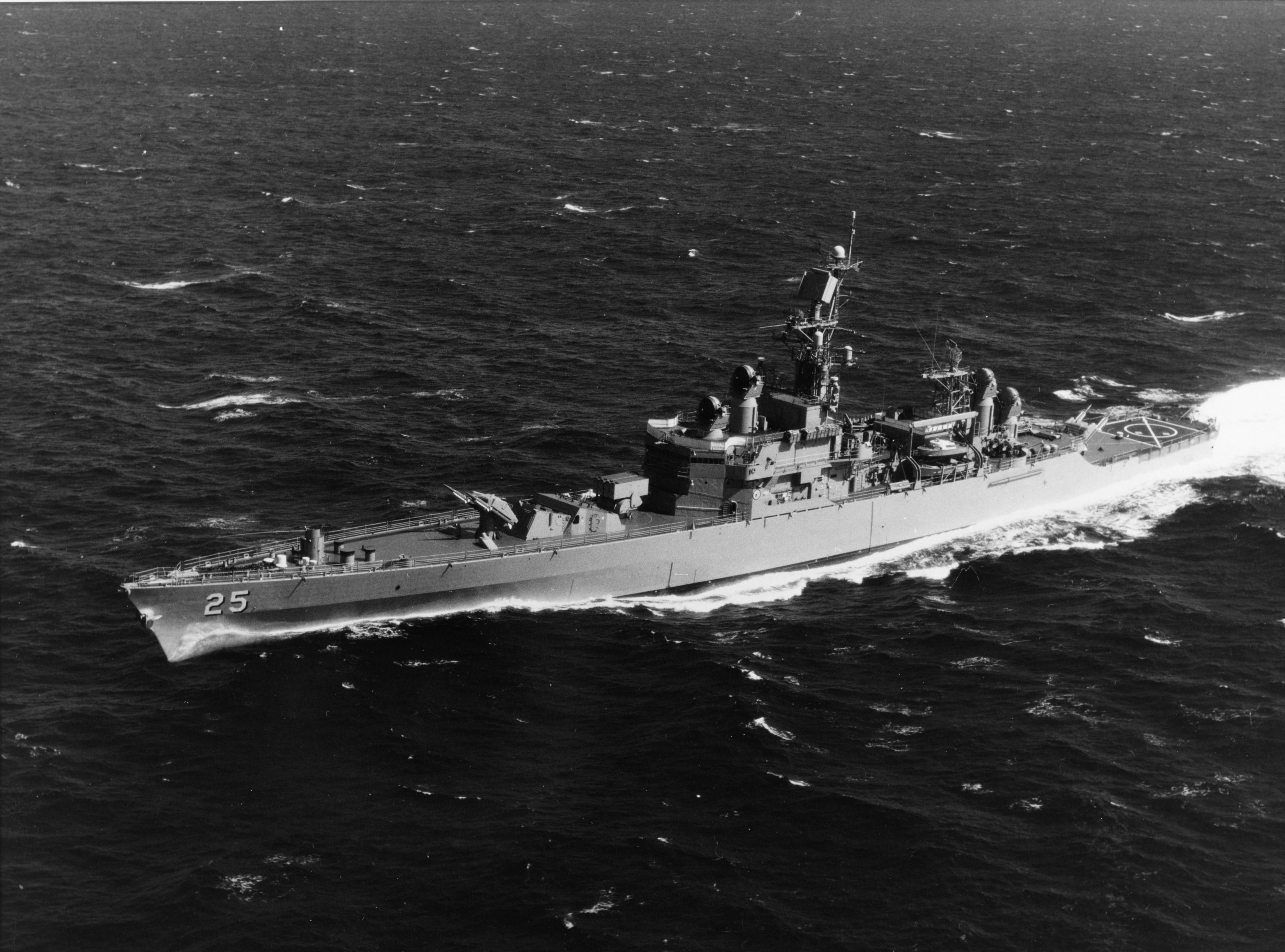 The U.S. Navy guided missile cruiser USS Bainbridge (DLGN-25) underway in the Pacific, 23 March 1971.